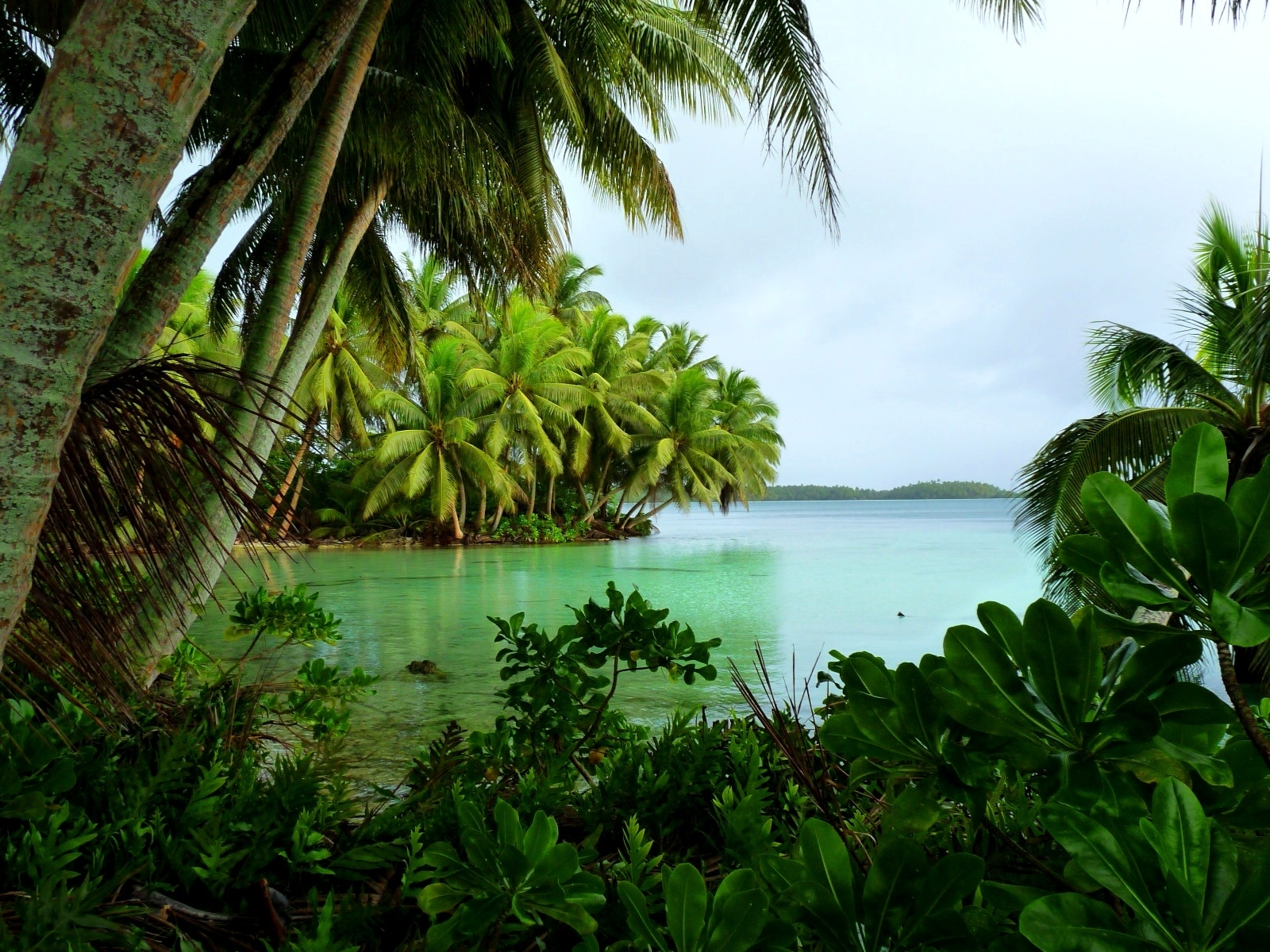 Palms drape over clear water at Strawn Island, one of more than 50 islets at Palmyra Atoll National Wildlife Refuge in the Pacific. (Laura Beauregard/USFWS)